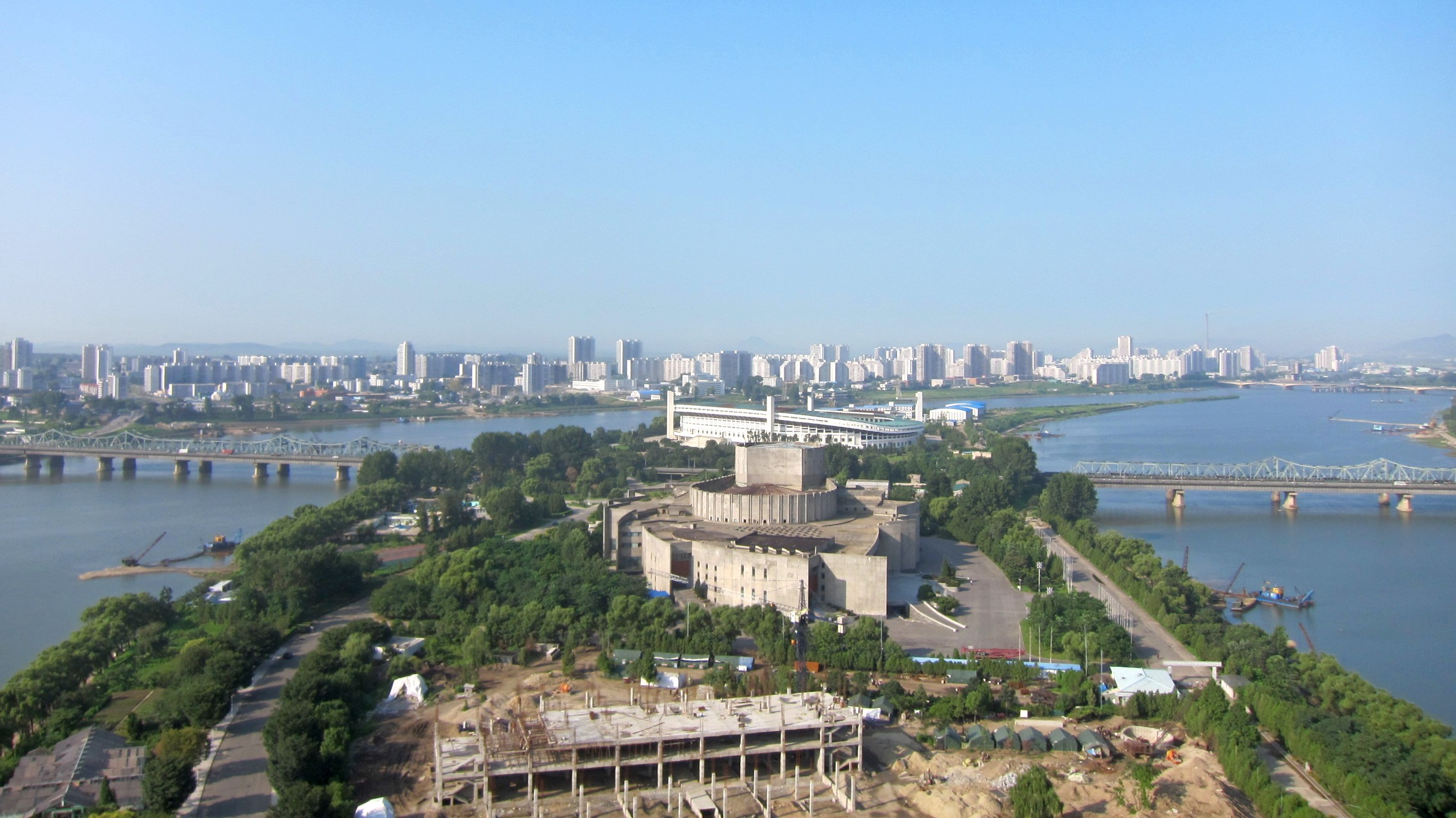 View from Yanggakdo Hotel, Pyongyang into western direction over Yanggak Island towards Yanggakdo Stadium